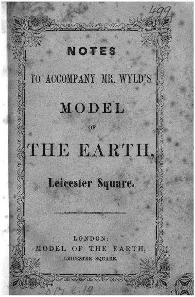 Title page of Notes to Accompany Mr. Wyld's Model of the Earth, Leicester Square